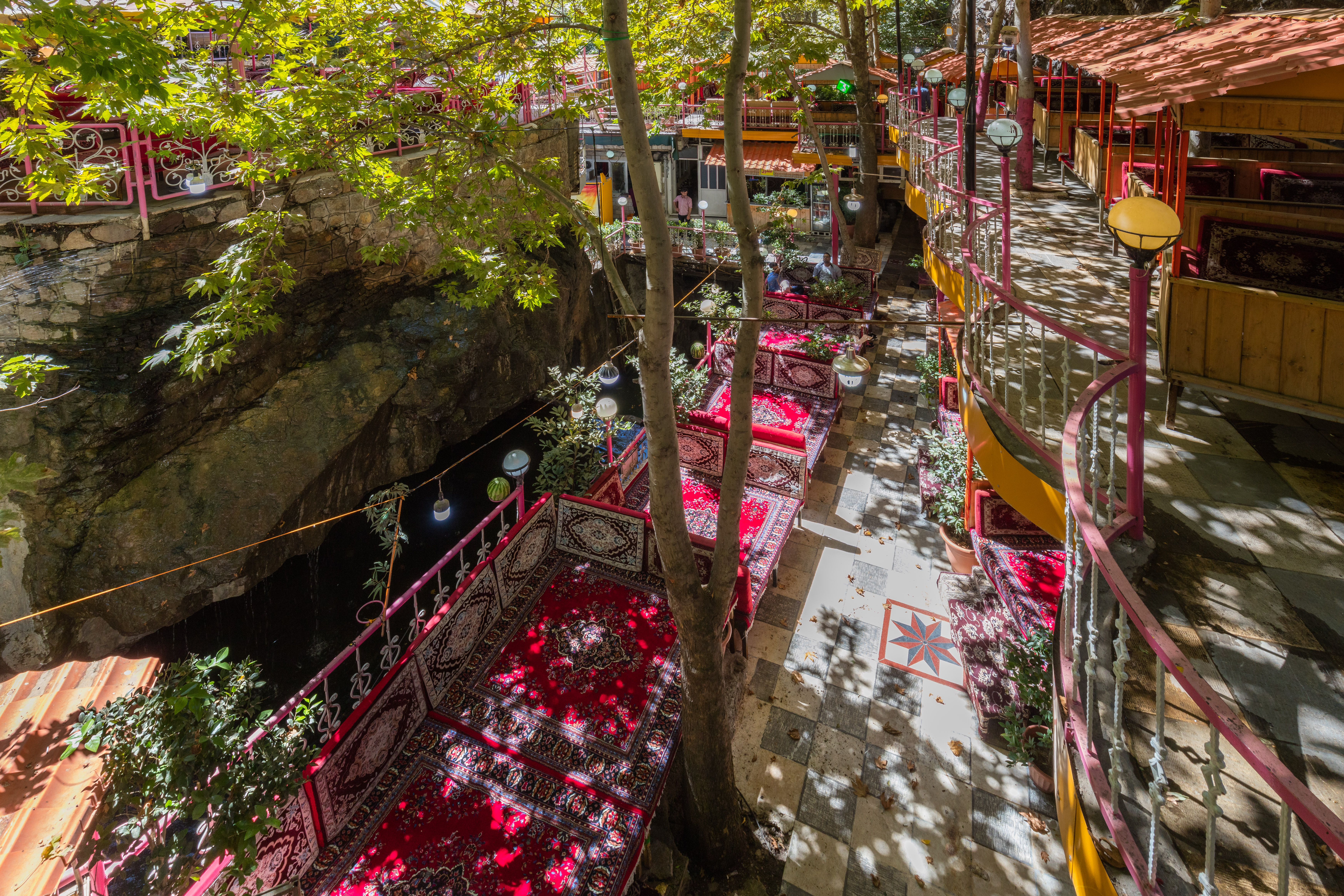 Darband, Tehran, Iran